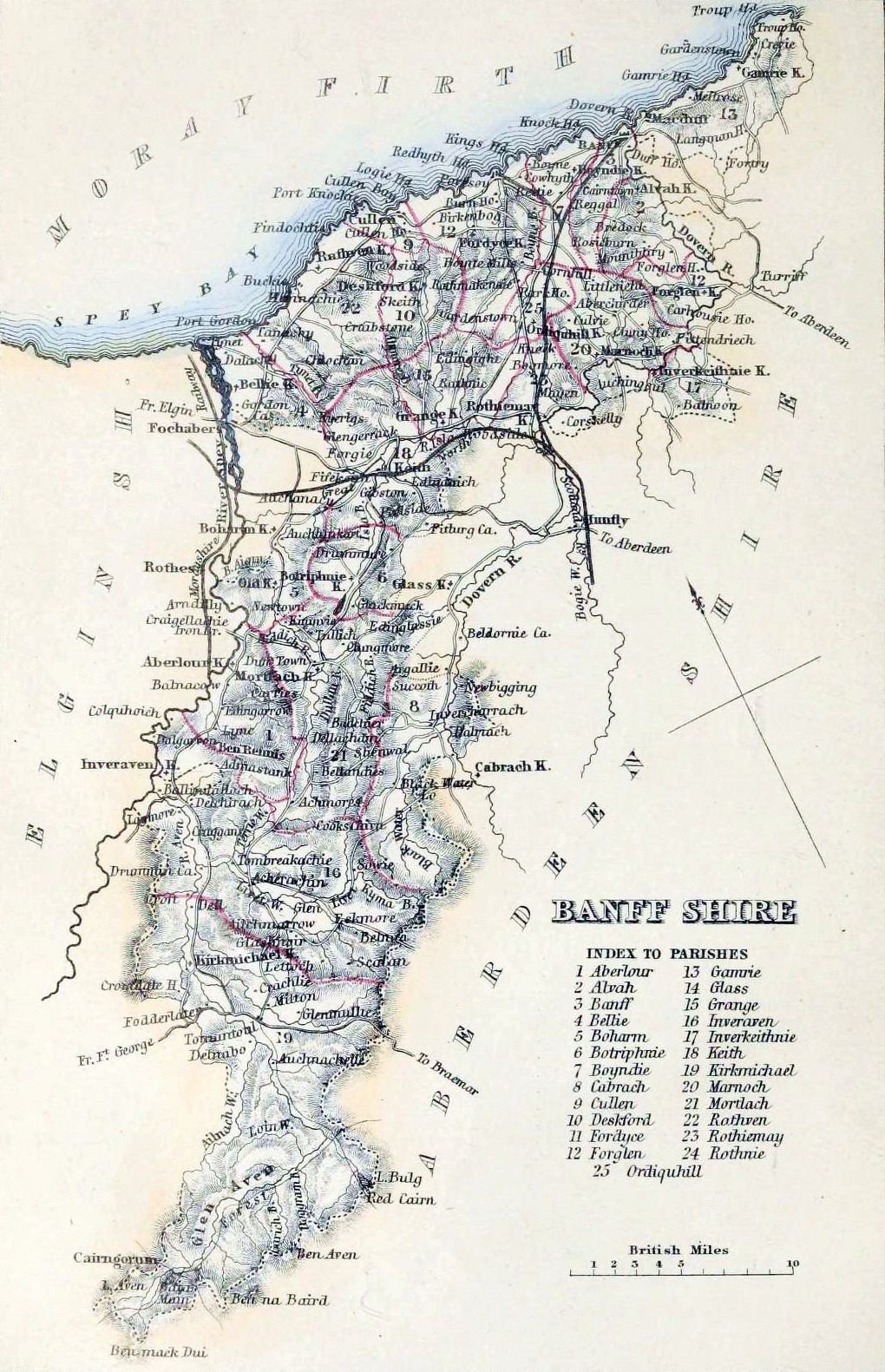 BANFFSHIRE Civil Parish map. The Imperial gazetteer of Scotland. Vol.I. by Rev. John Marius Wilson.